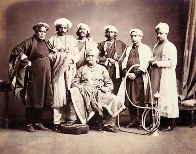 Maharaja of Benares and Suite, 1870s